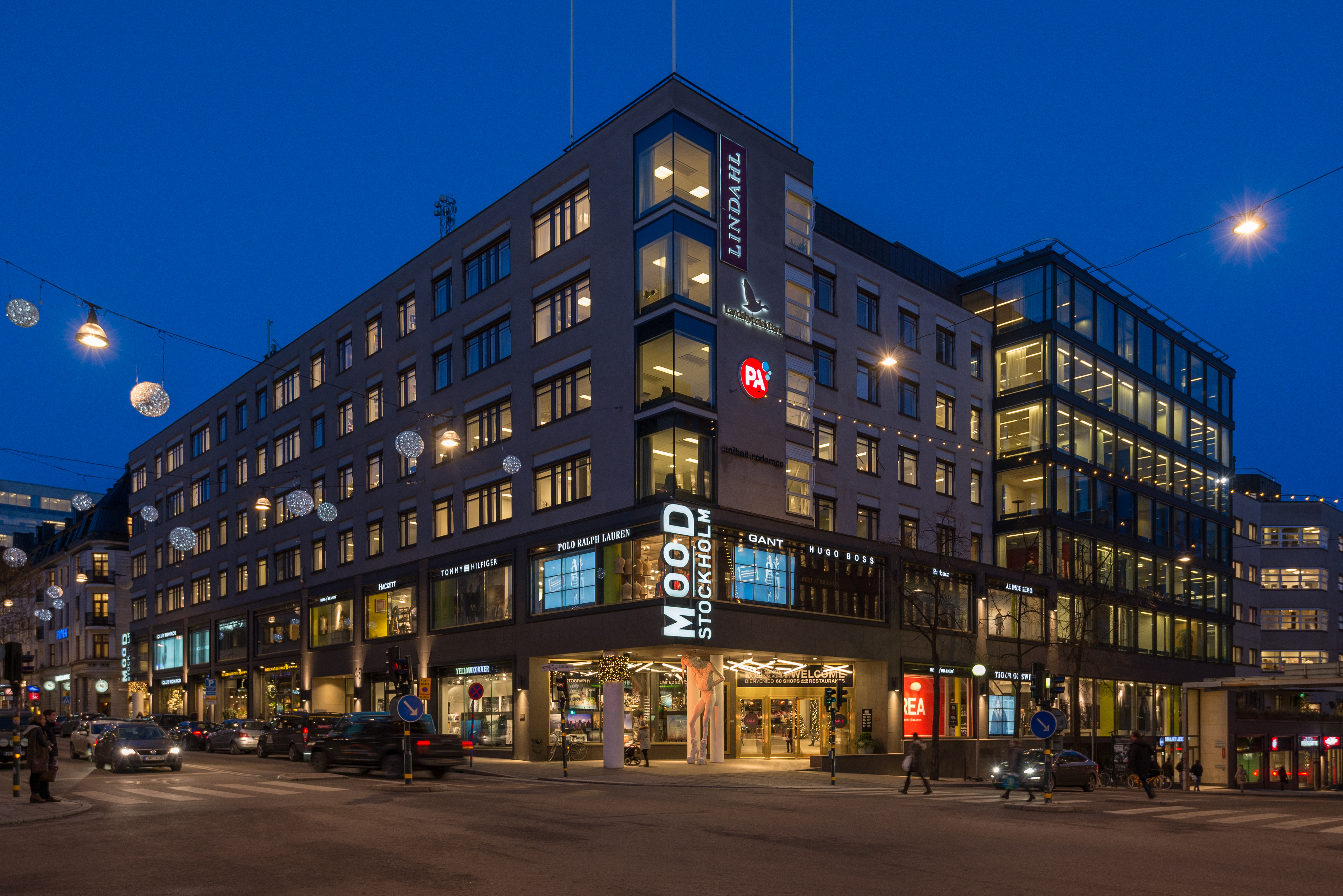 Mood Stockholm.